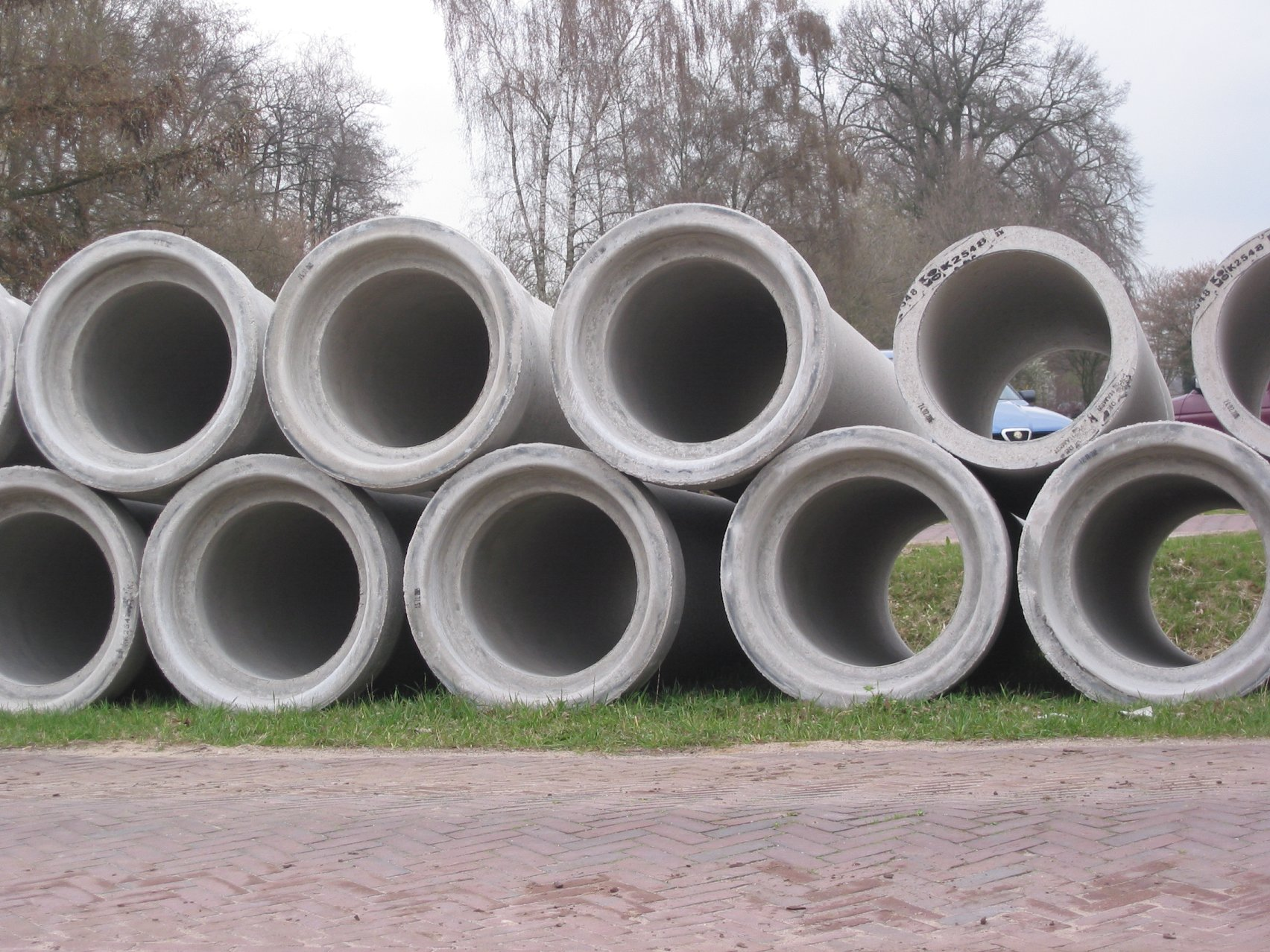 Sewer concrete pipelines